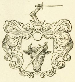 Pomian Coat of Arms from reprint of "Nomenclator" by Wojciech Wiiuk Kojałowicz, orginal work from 1658, reprint from 1905